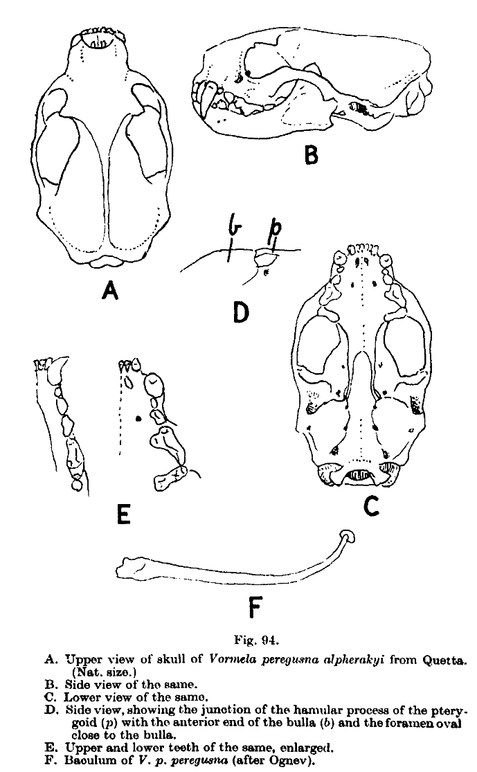 Skull, dentition and baculum of a mottled polecat